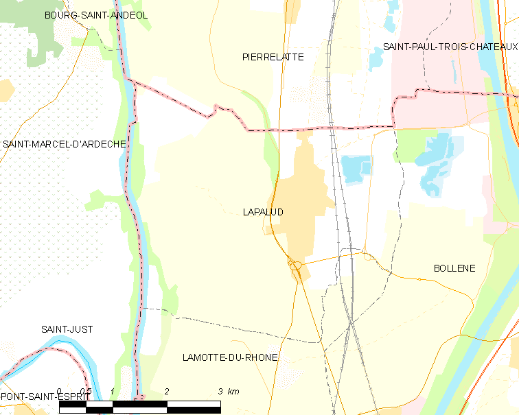 Map of French municipality Lapalud